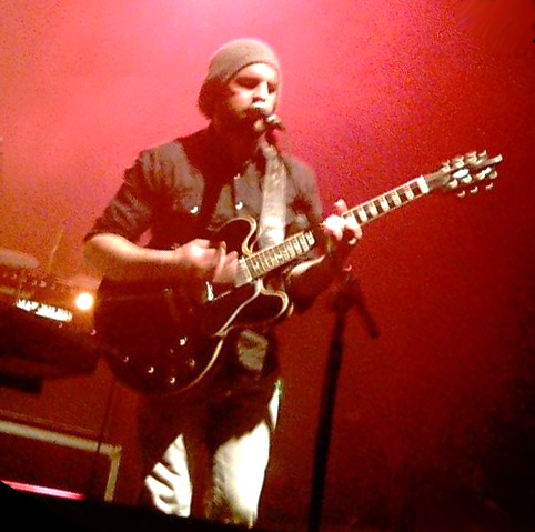 David Geraghty Image